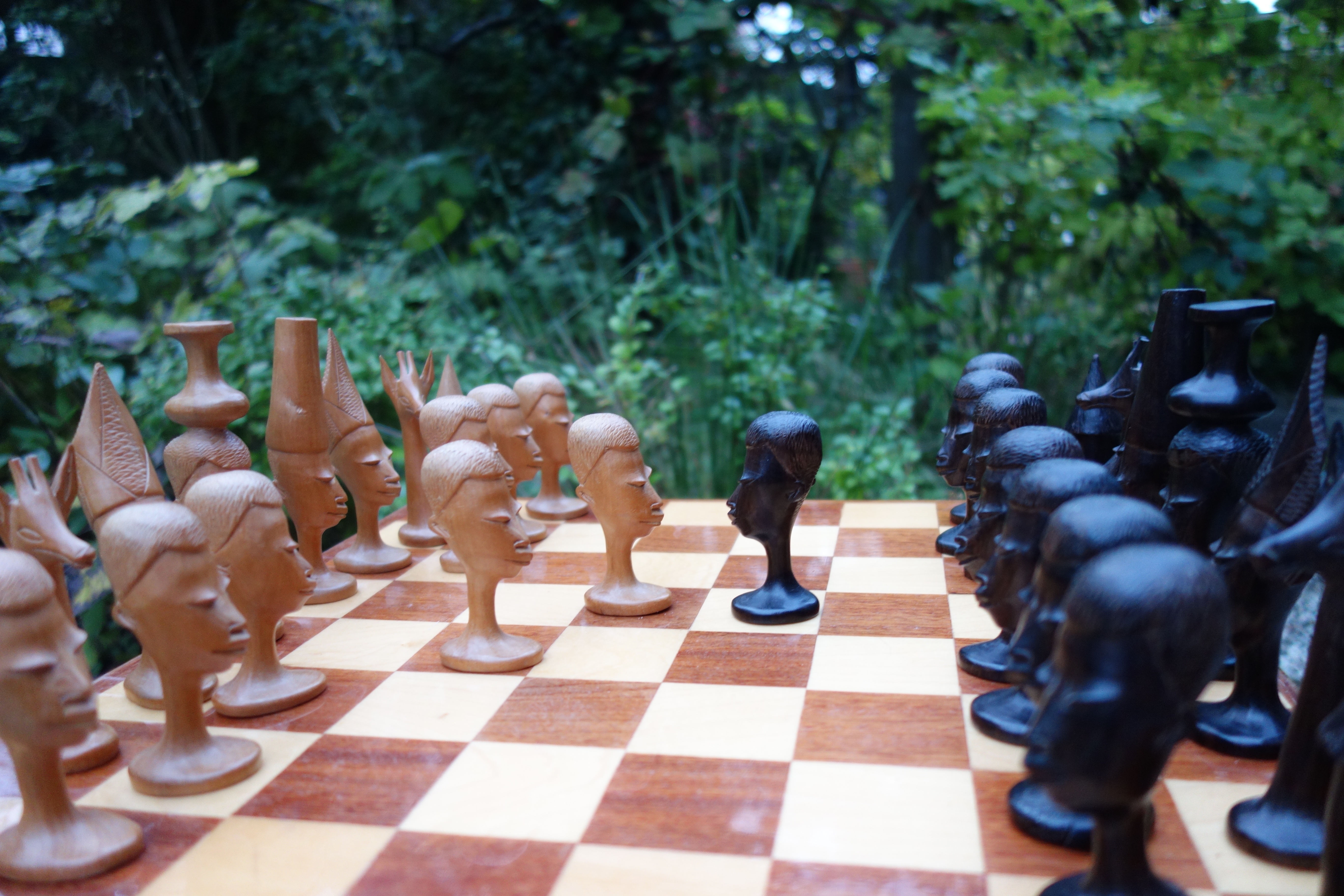 Pair of chess pieces, from the Makonde region, on the border of Tanzania and Mozambique. Bought in the early 80s.